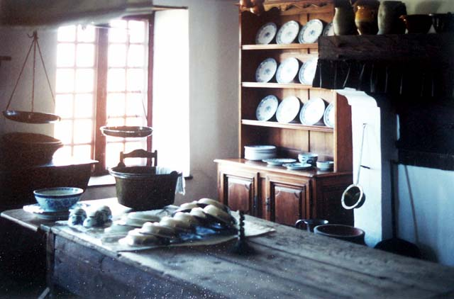 French fortress at Fortress Louisbourg, partially reconstructed as a Canadian national historic site